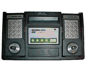 Emerson Arcadia 2001, intended as a portable game console, the Arcadia 2001 was released by Emerson Radio Corp in mid-1982.